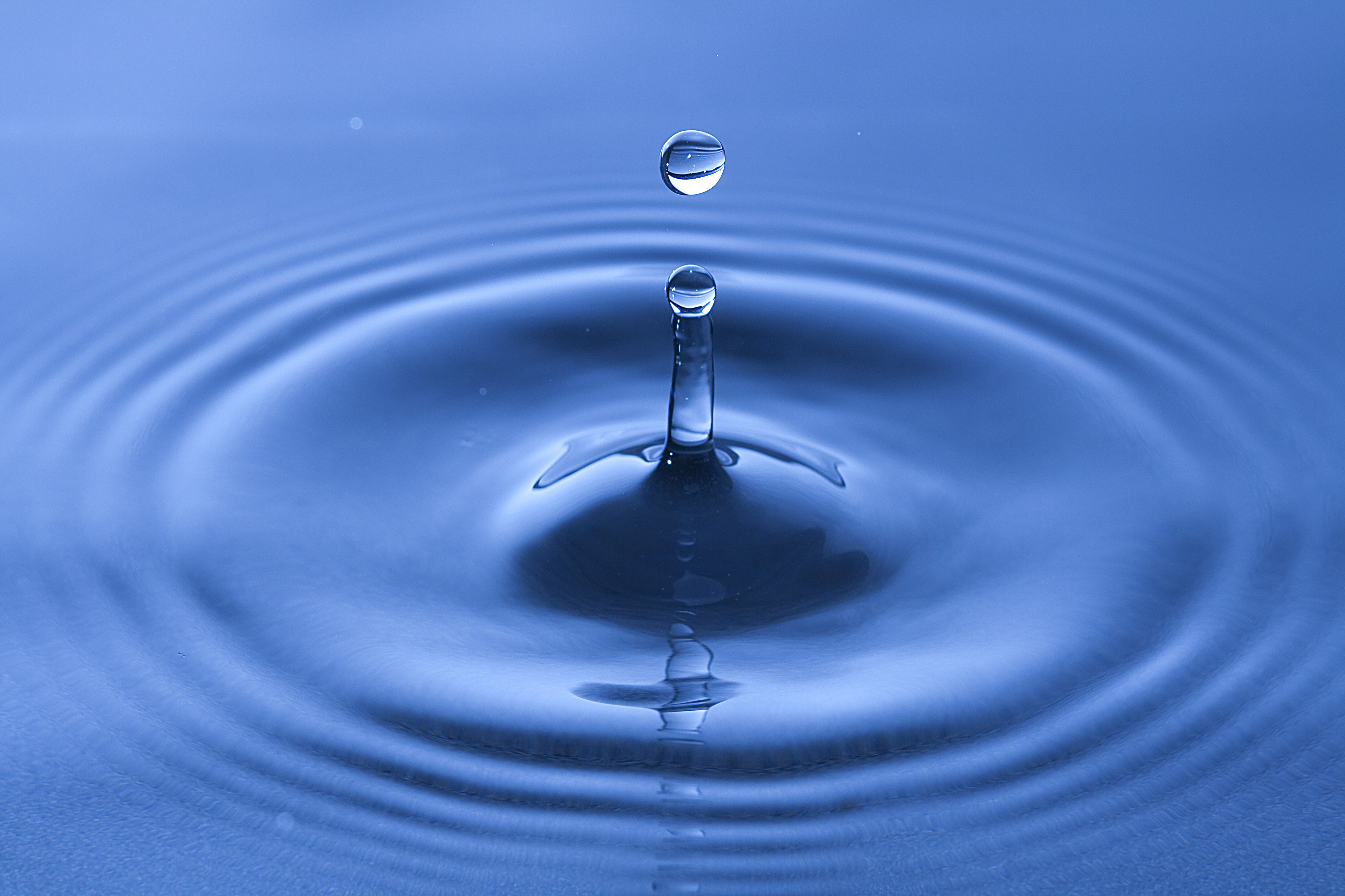 Lighting information: Flash: Nikon SB-24 Flash Zoom: 24mm Flash Power: 1/4 - Manual See strobist setup: here.